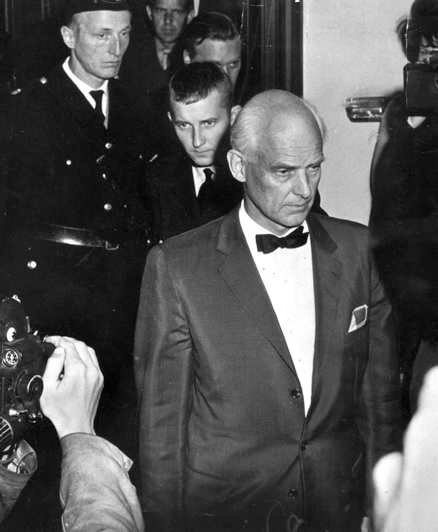 Stig Wennerström in court during summer of 1963.